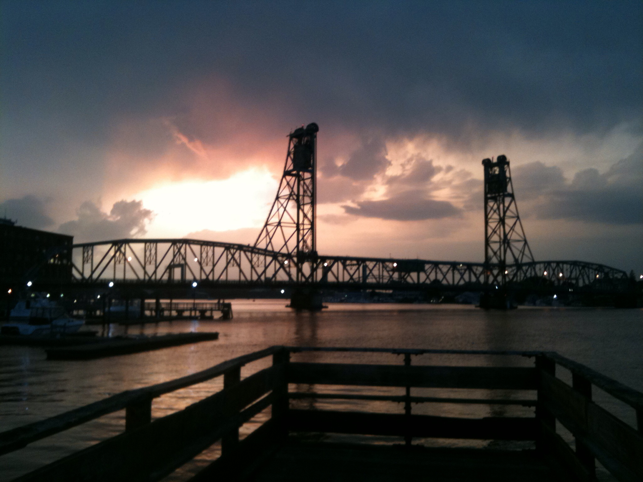 View of old Memorial Bridge from Prescott Park at sunset